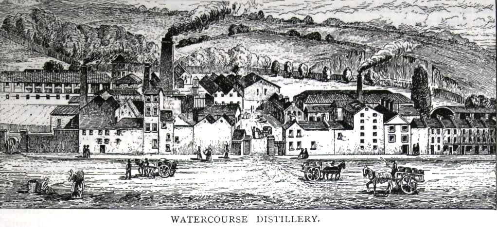 A sketch of the now defunct Hewitt's Watercourse Distillery, Blackpool, Cork, Ireland circa. 1886.